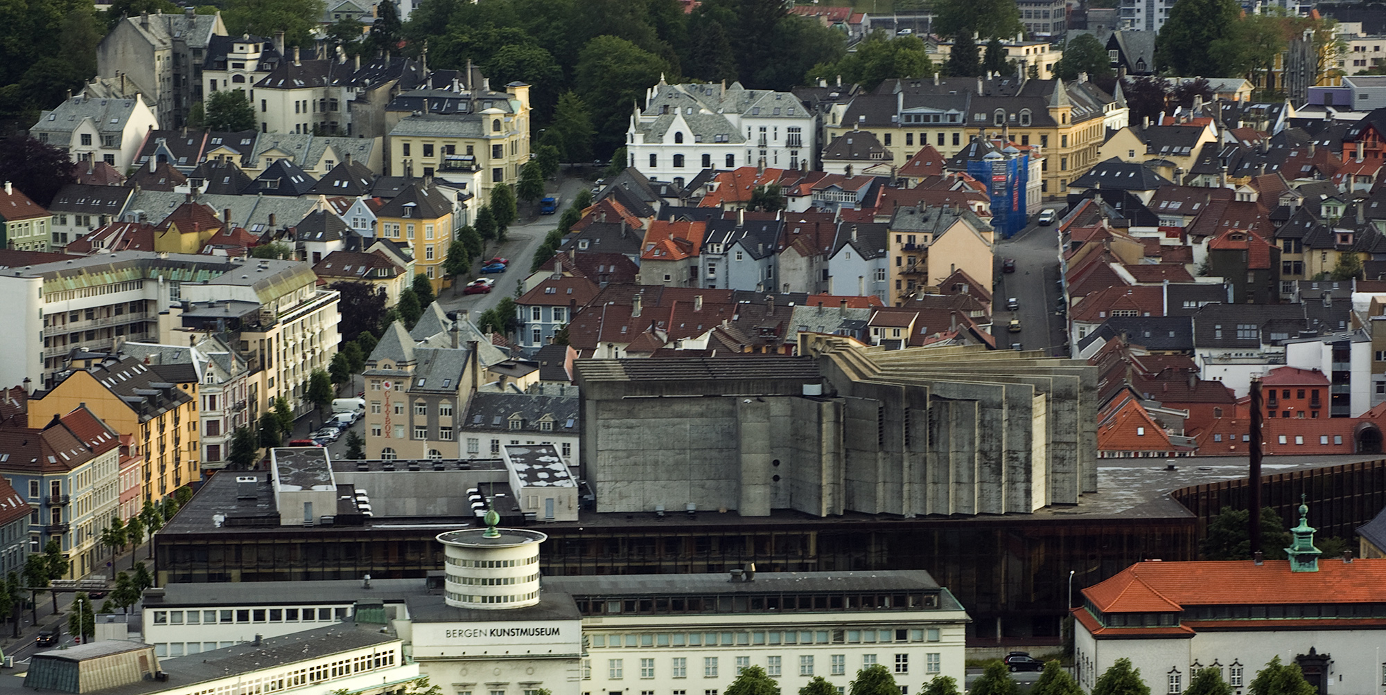 The Grieg Hall in Bergen, Norway. Extreme foreground: Bergen Art Museum.